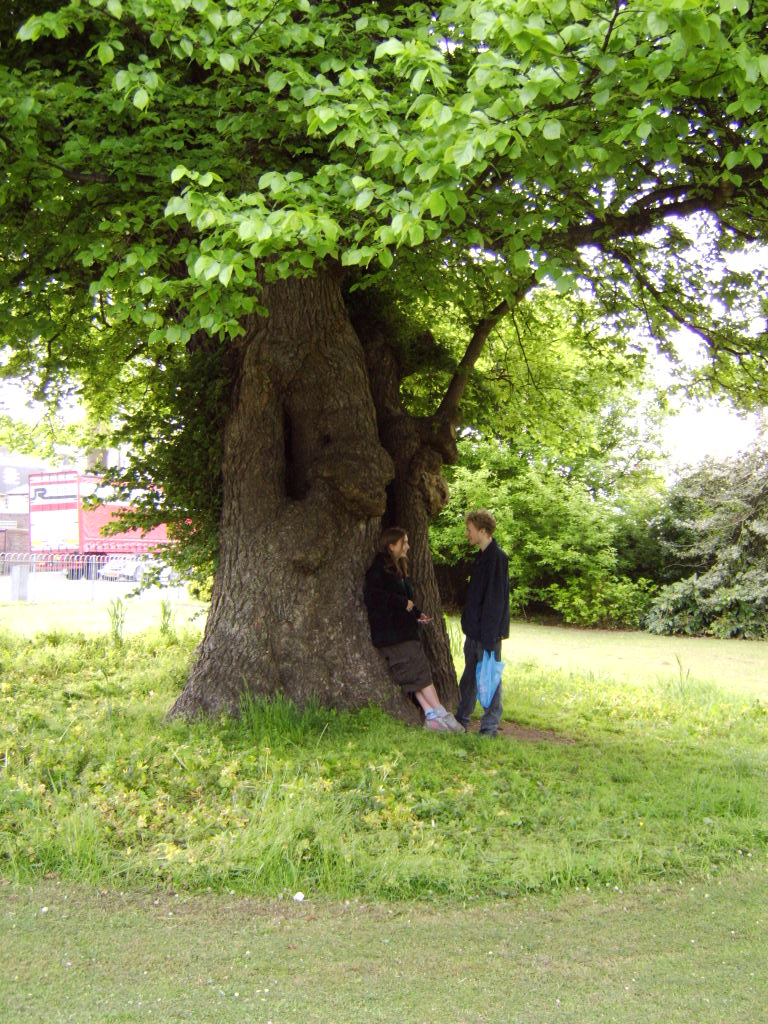 The larger of the two "Preston Twins", a pair of English Elms in Preston Park, Brighton, England. Thought to be the largest surviving English Elms in Europe [1]